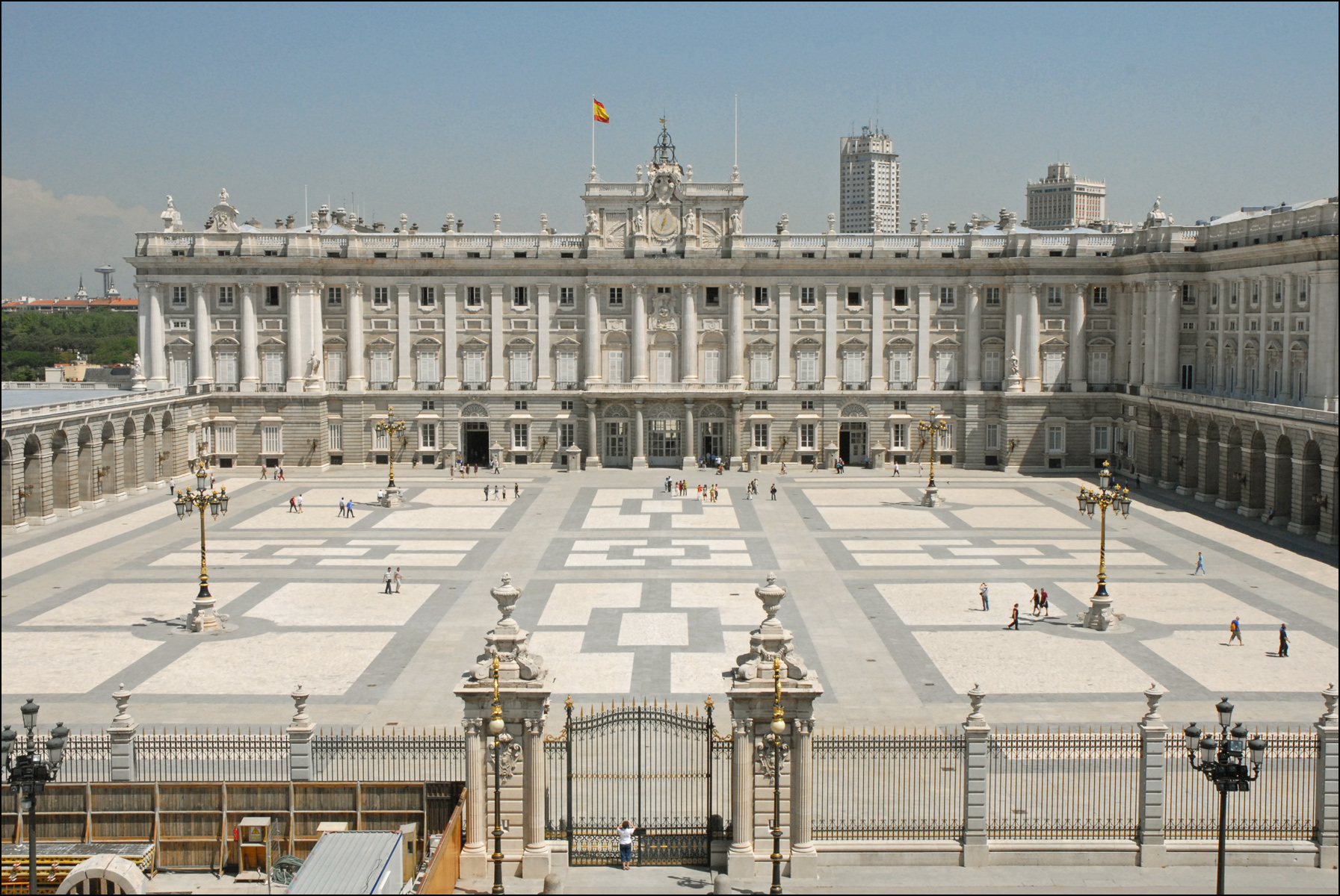 Exterior of the Royal Palace of Madrid (Spain).